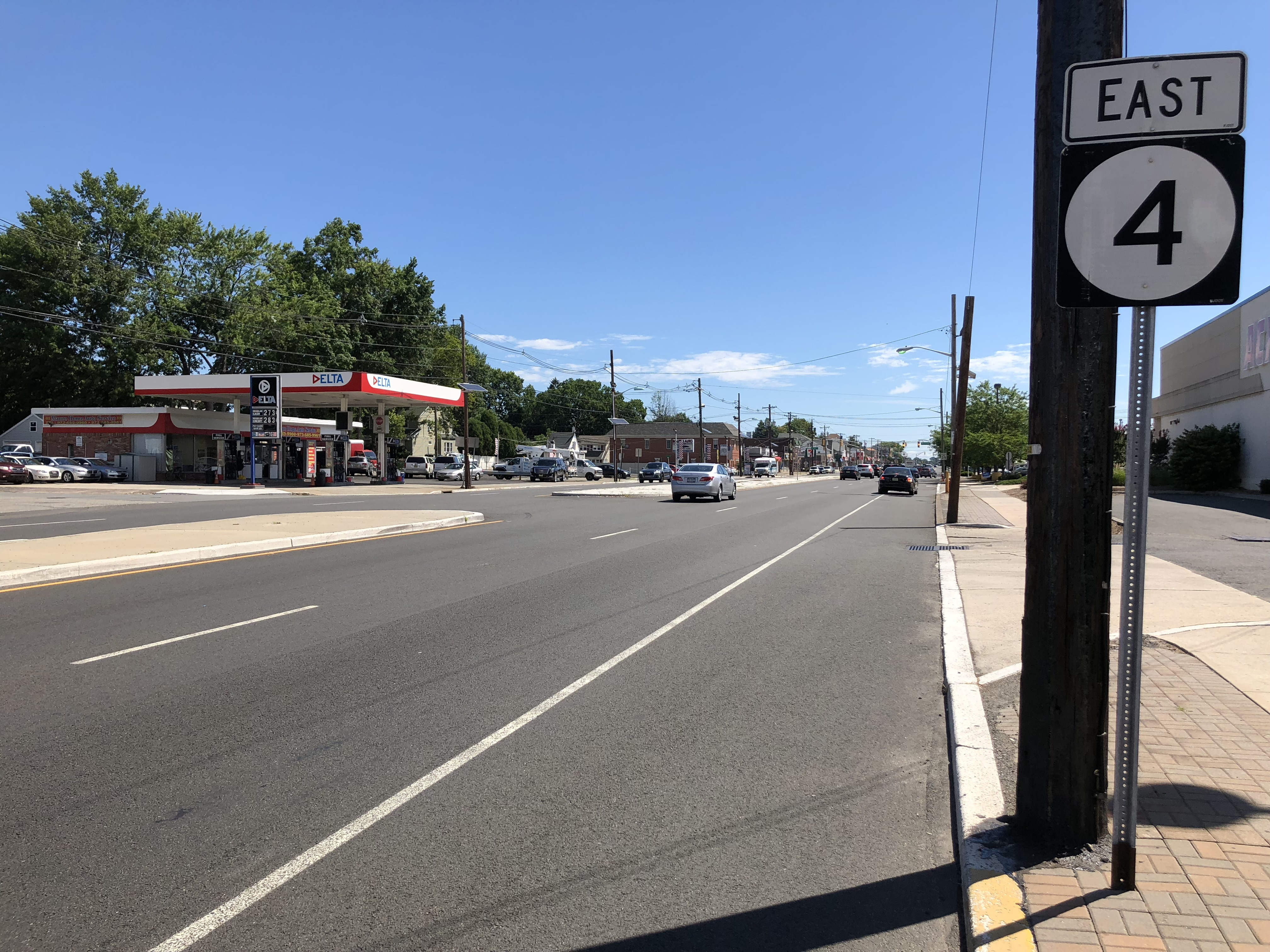 View east along New Jersey State Route 4 (Broadway) between Sterling Street and Parkview Avenue in Elmwood Park, Bergen County, New Jersey